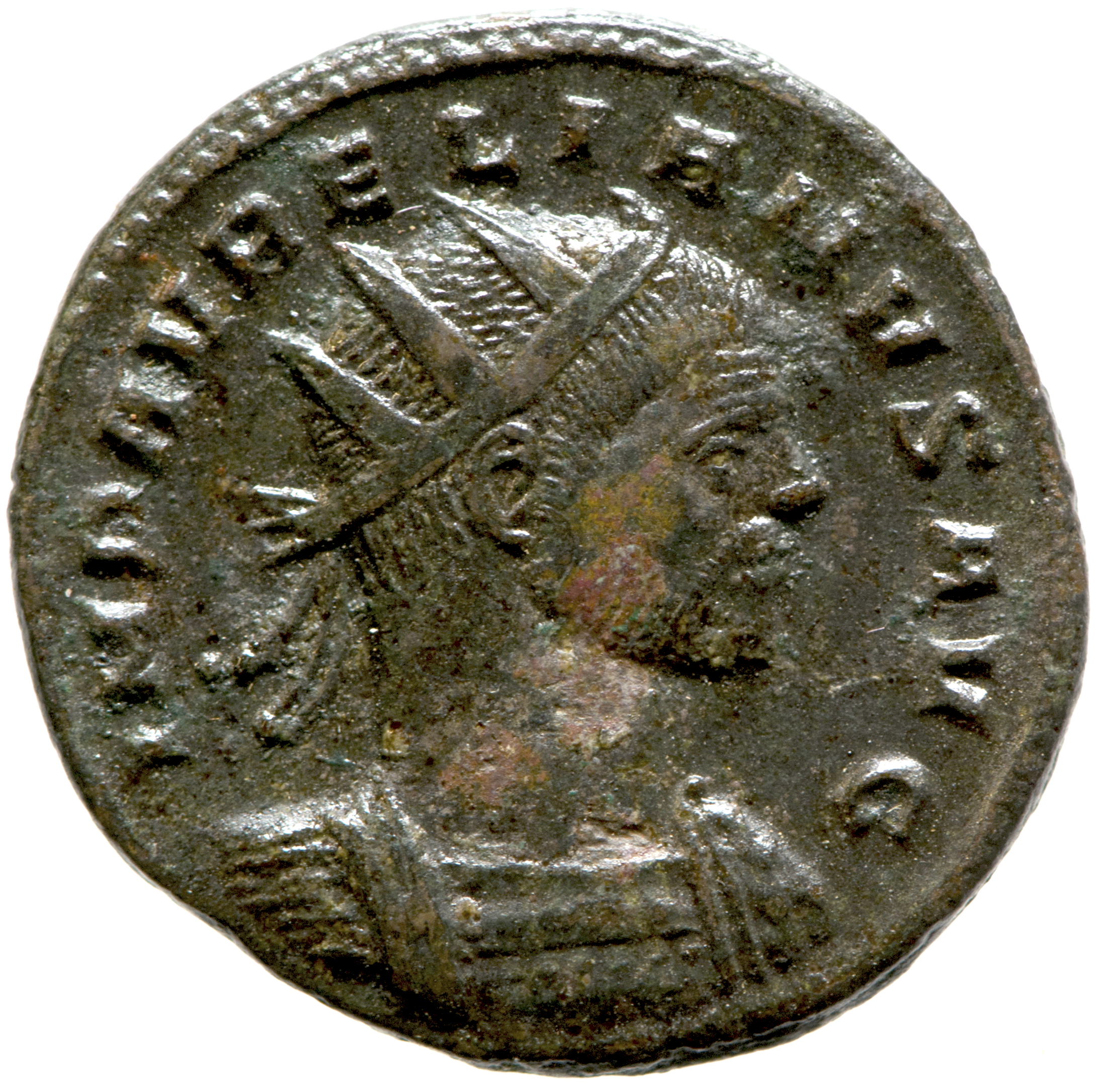 Obverse (front) of a Radiate of w: Aurelian, showing head right radiate. cuirassed.